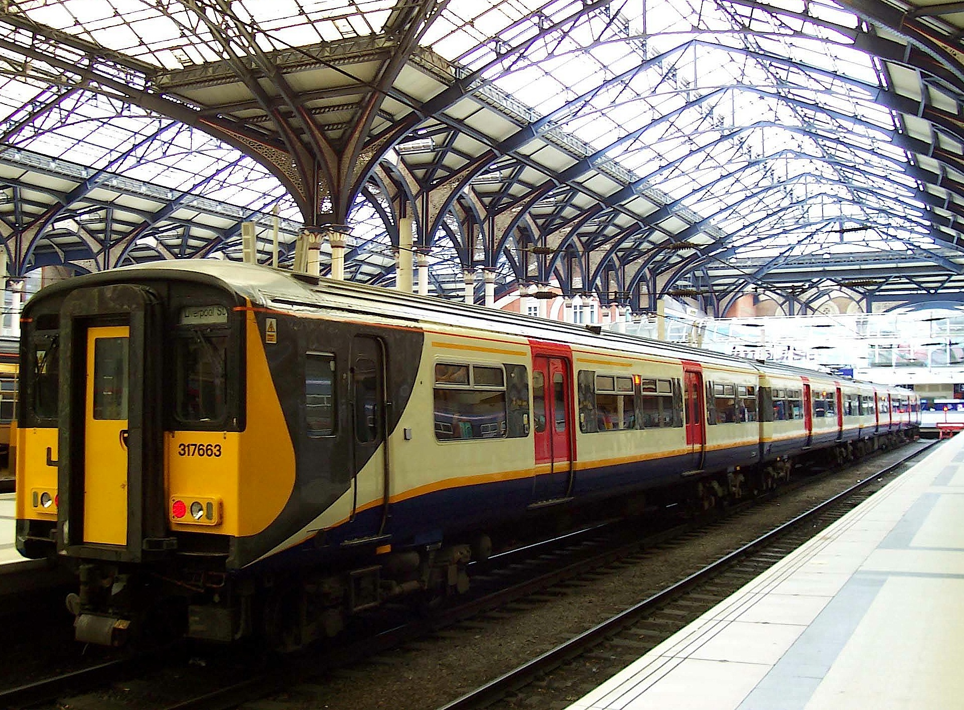 WAGN Railway Class 317/6 No. 317663 at London Liverpool Street